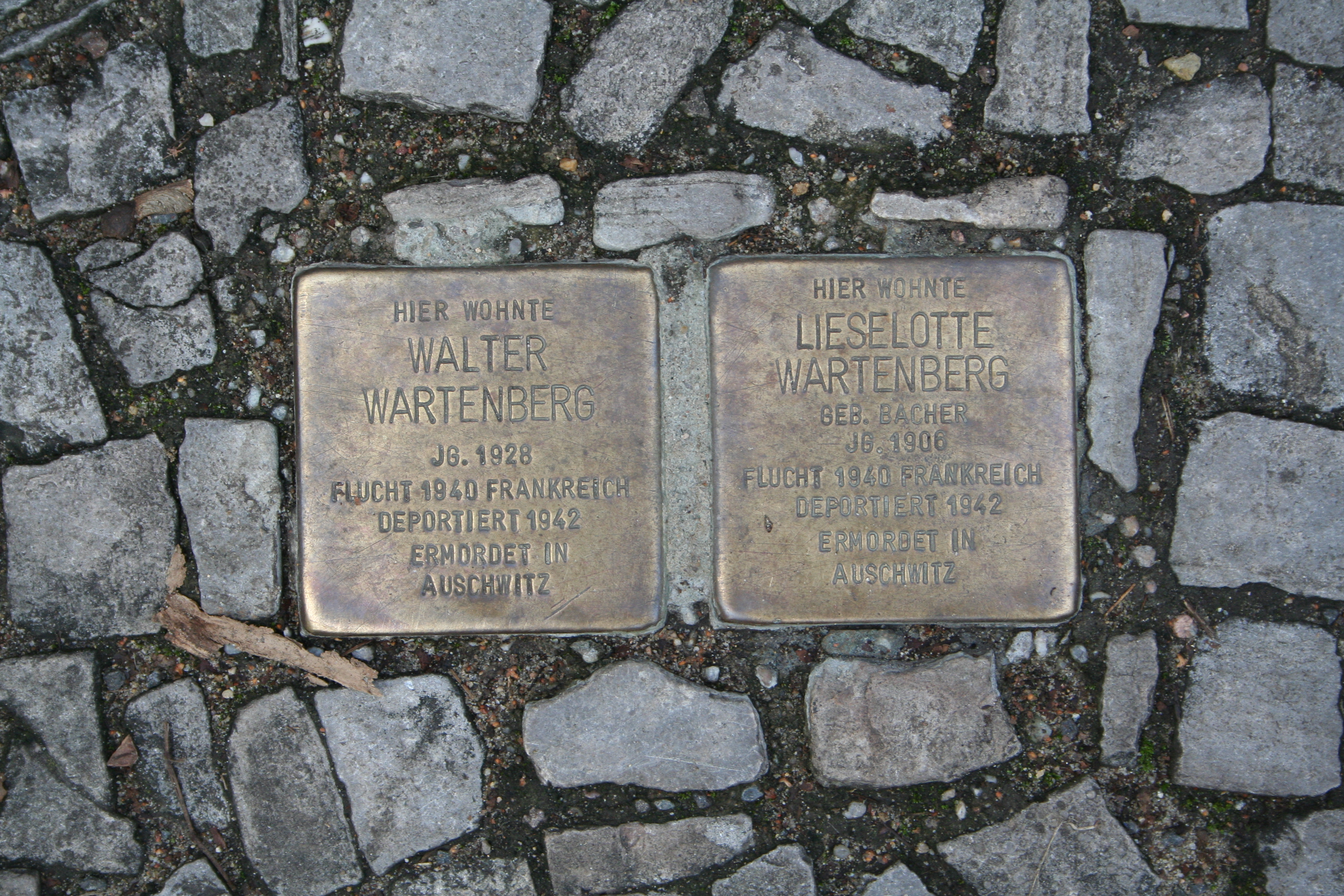 Stolperstein at Halle (Saale) for Walter and Lieselotte Wartenberg, Schleiermacherstraße 13